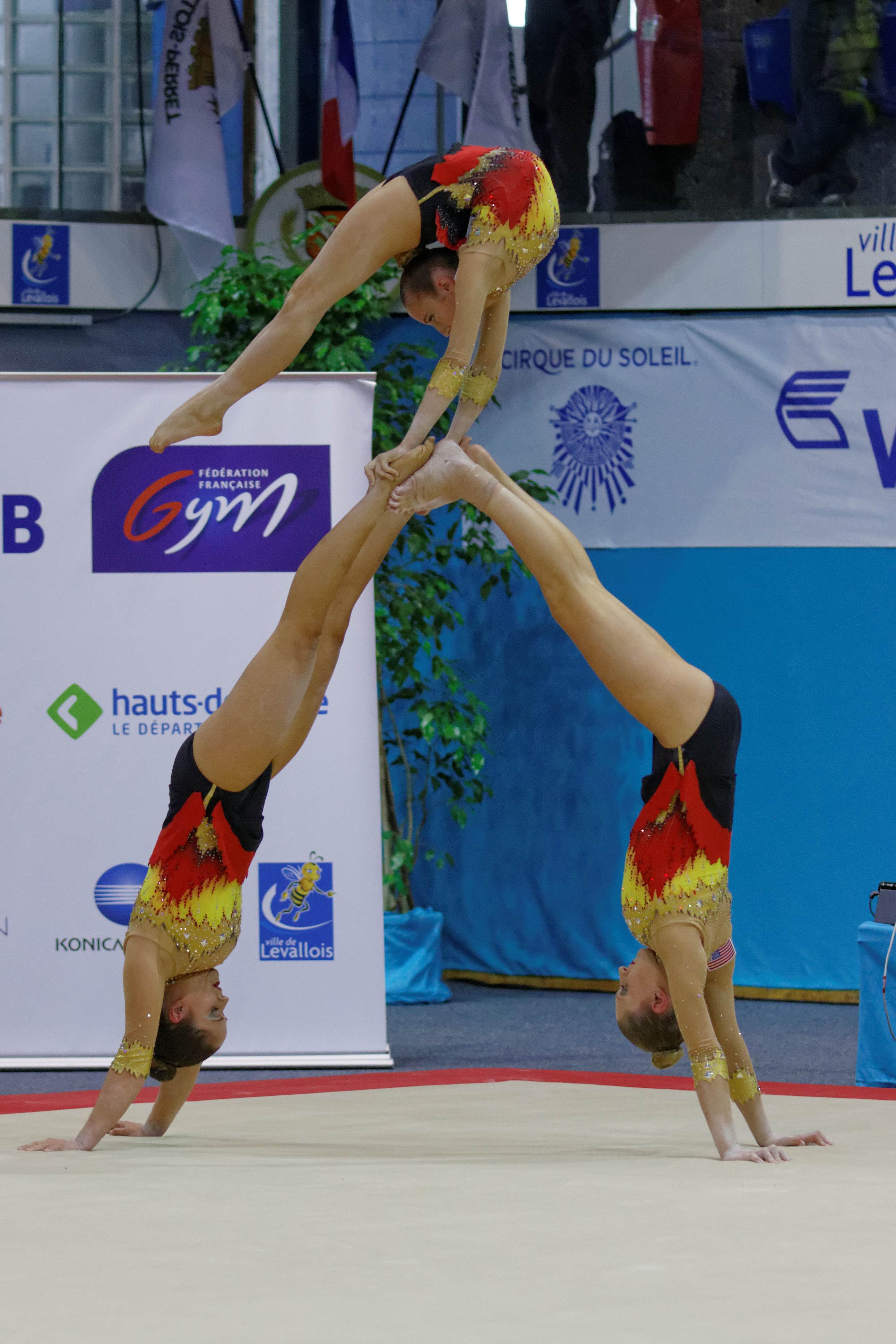 2014 Acrobatic Gymnastics World Championships, 10th-12 July, Levallois-Perret, France. Qualifications: women's group. USA.